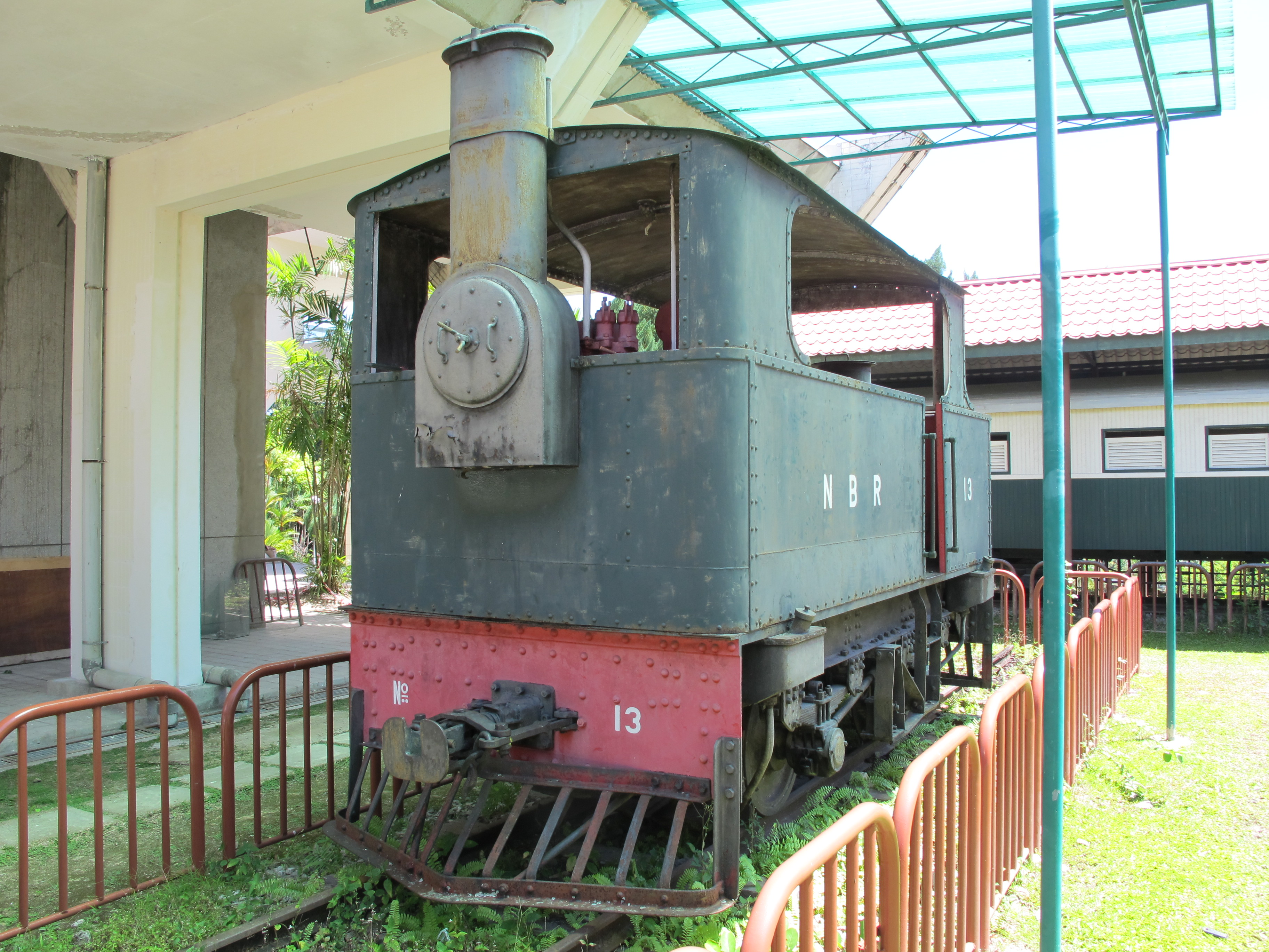 Sentinel No 13; steam locomotive of the North Borneo railways; exhibited at Sabah Museum, Kota Kinabalu